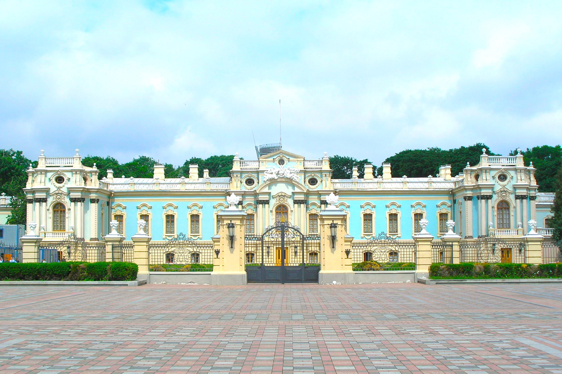 The Mariyinsky Palace — the official residence of the Ukrainian President in Kiev. A 17th century Baroque palace.